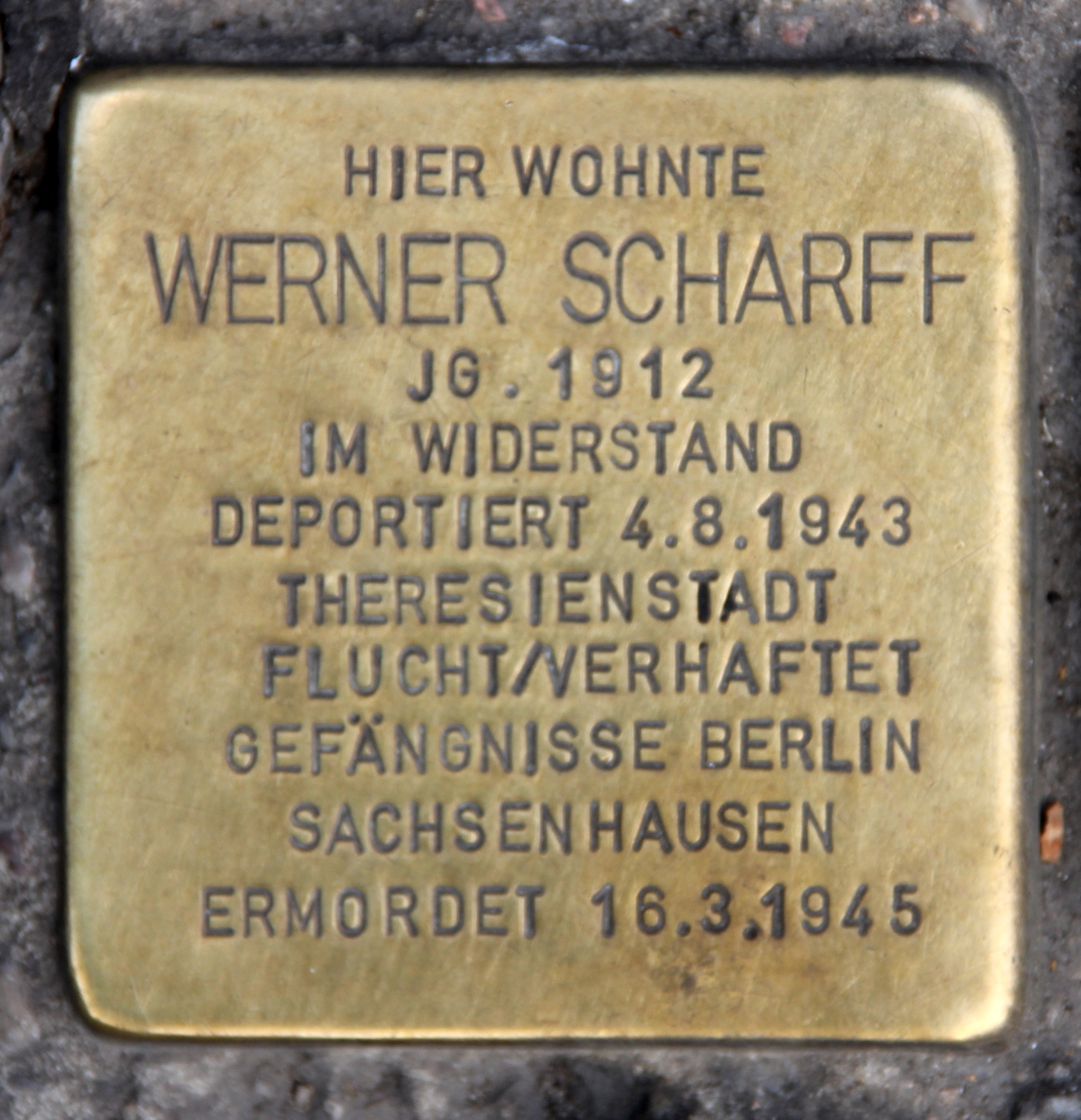 "Stolperstein" (stumbling block), Werner Scharff, Gitschiner Straße 71, Berlin-Kreuzberg, Germany